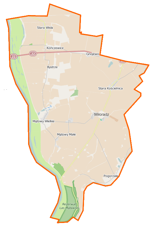 Map of Gmina Miłoradz, Poland This map of Miłoradz (gmina) was created from OpenStreetMap project data, collected by the community. This map may be incomplete, and may contain errors. Don't rely solely on it for navigation.